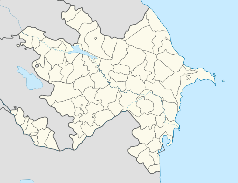 Administrative division map of Azerbaijan